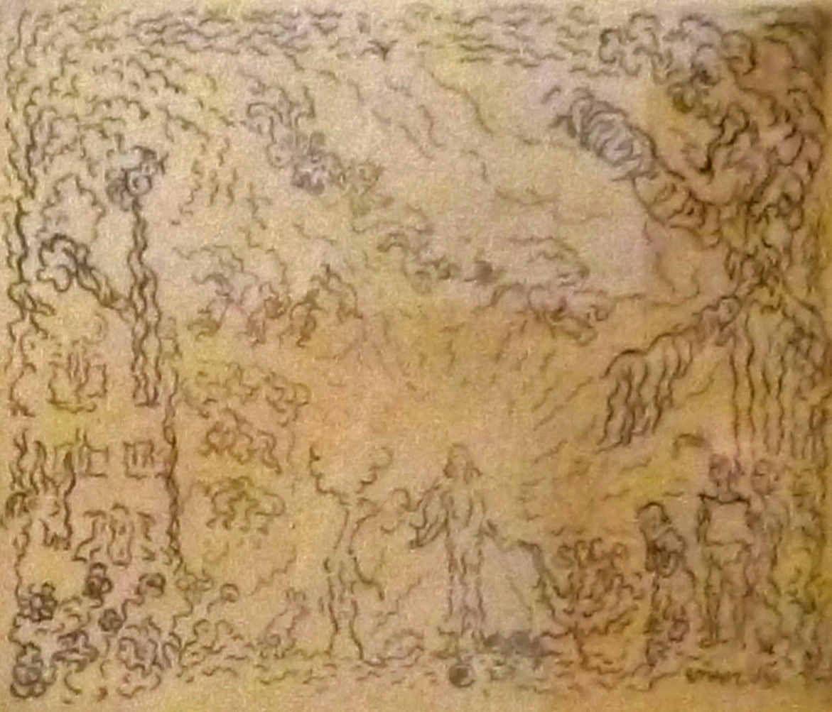 "Le moulin au diable",(1934), etching in sanguine by James Ensor; 19 x 14.5 cm; collection Museum of Fine Arts, Ghent